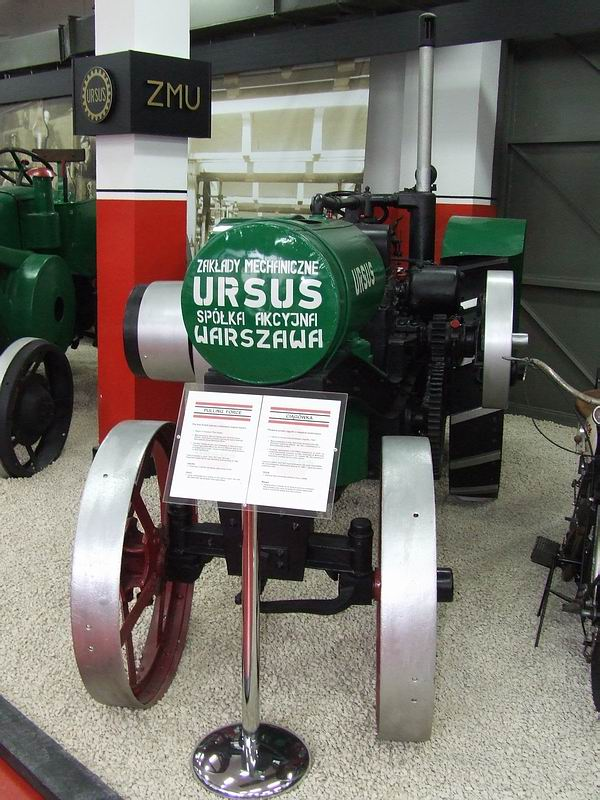 1st series Ursus tractor named 'Ciągówka'.